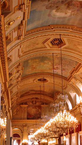 Grand Gallery, Brussels Royal Palace